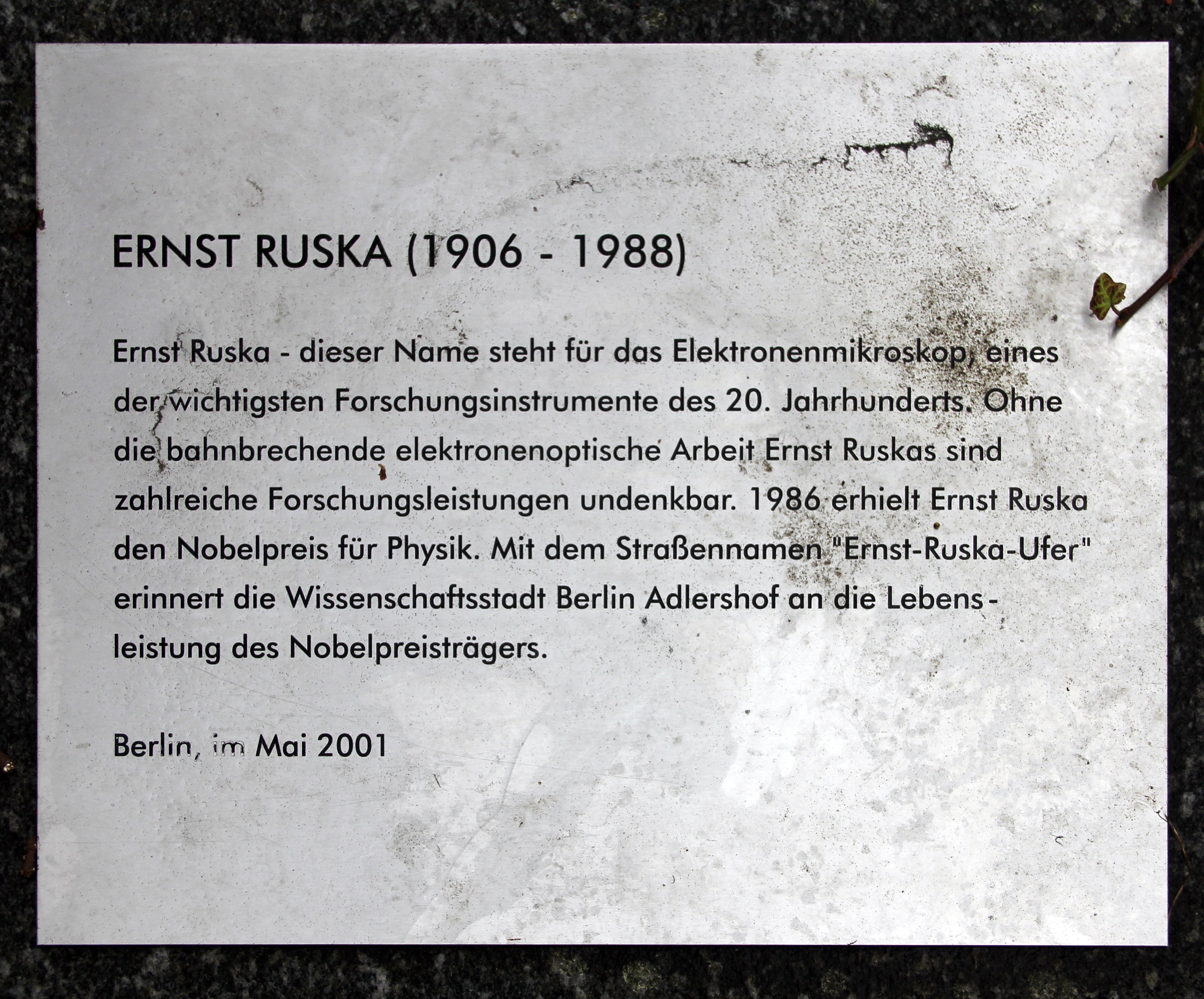 Memorial plaque, Ernst Ruska, Ernst-Ruska-Ufer, Berlin-Adlershof, Deutschland